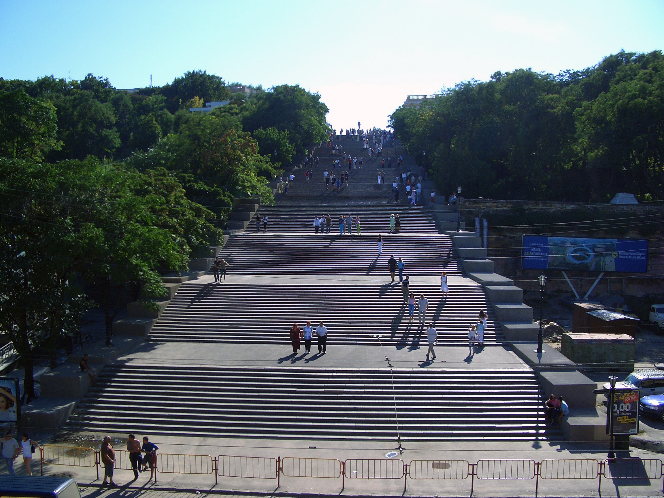 Potemkin Stairs in Odessa, Ukraine